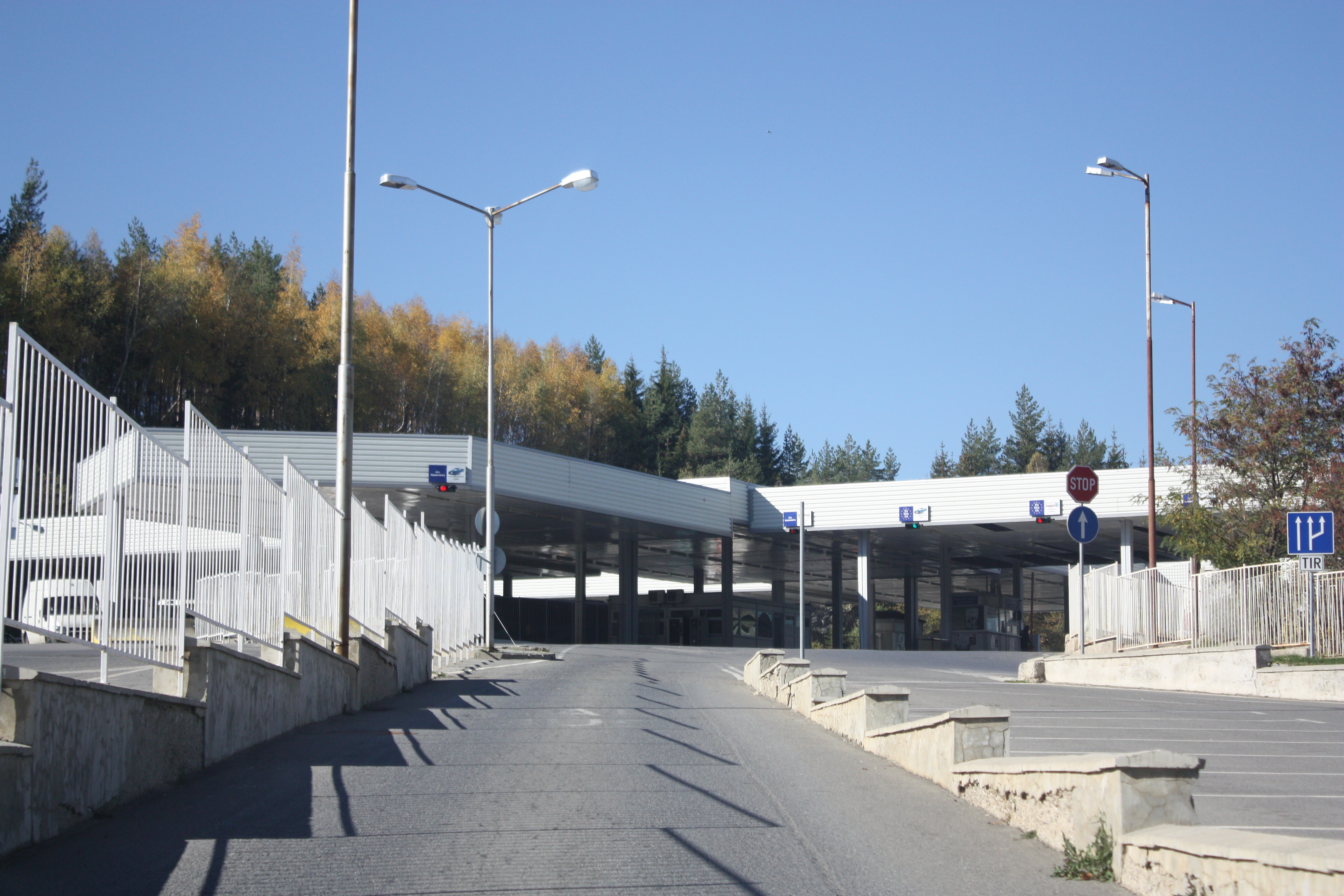 Border Check-point Gyueshevo between Bulgaria and Macedonia FYRO